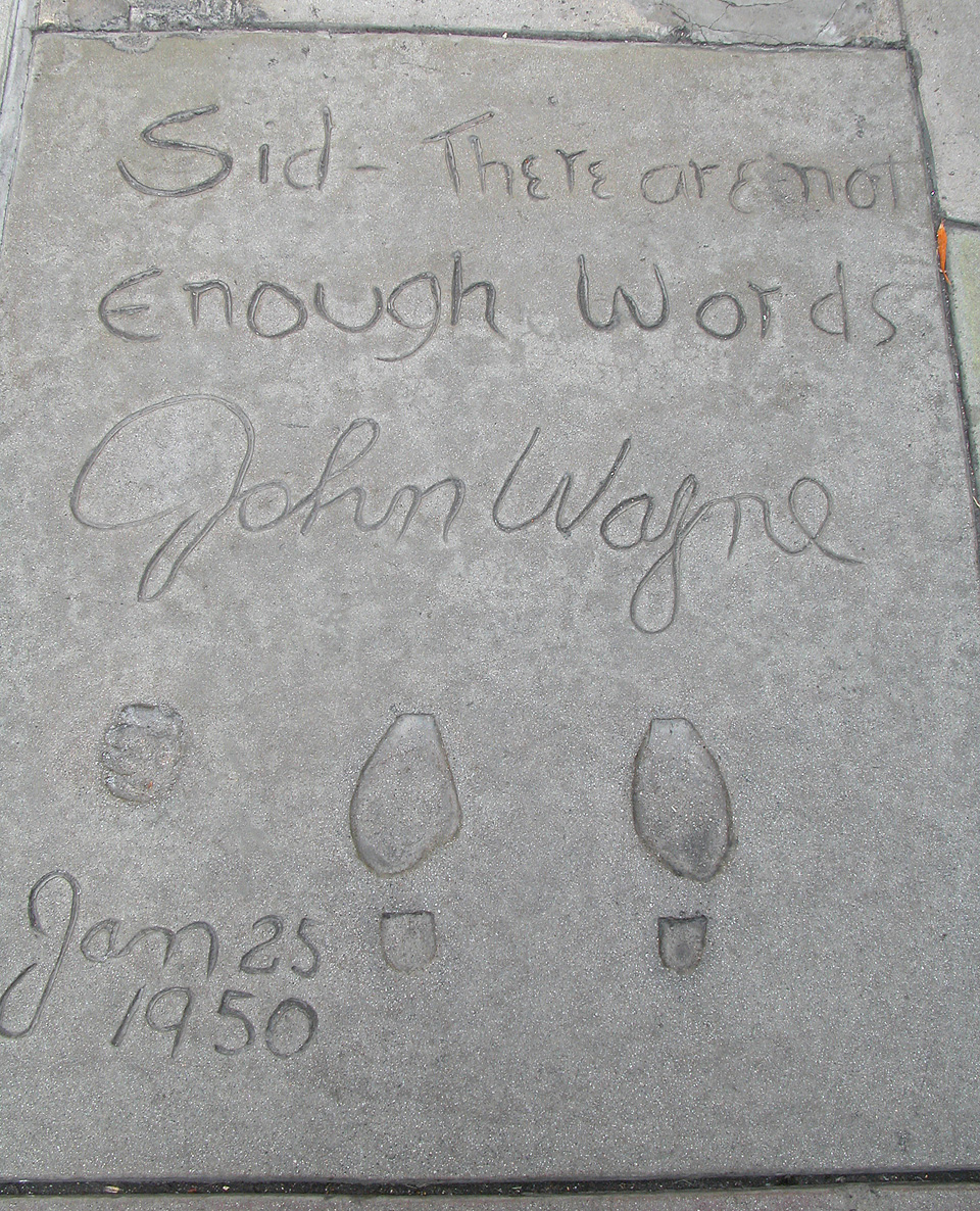 John Wayne's footprints at the Grauman's Chinese Theatre, Los Angeles (California)